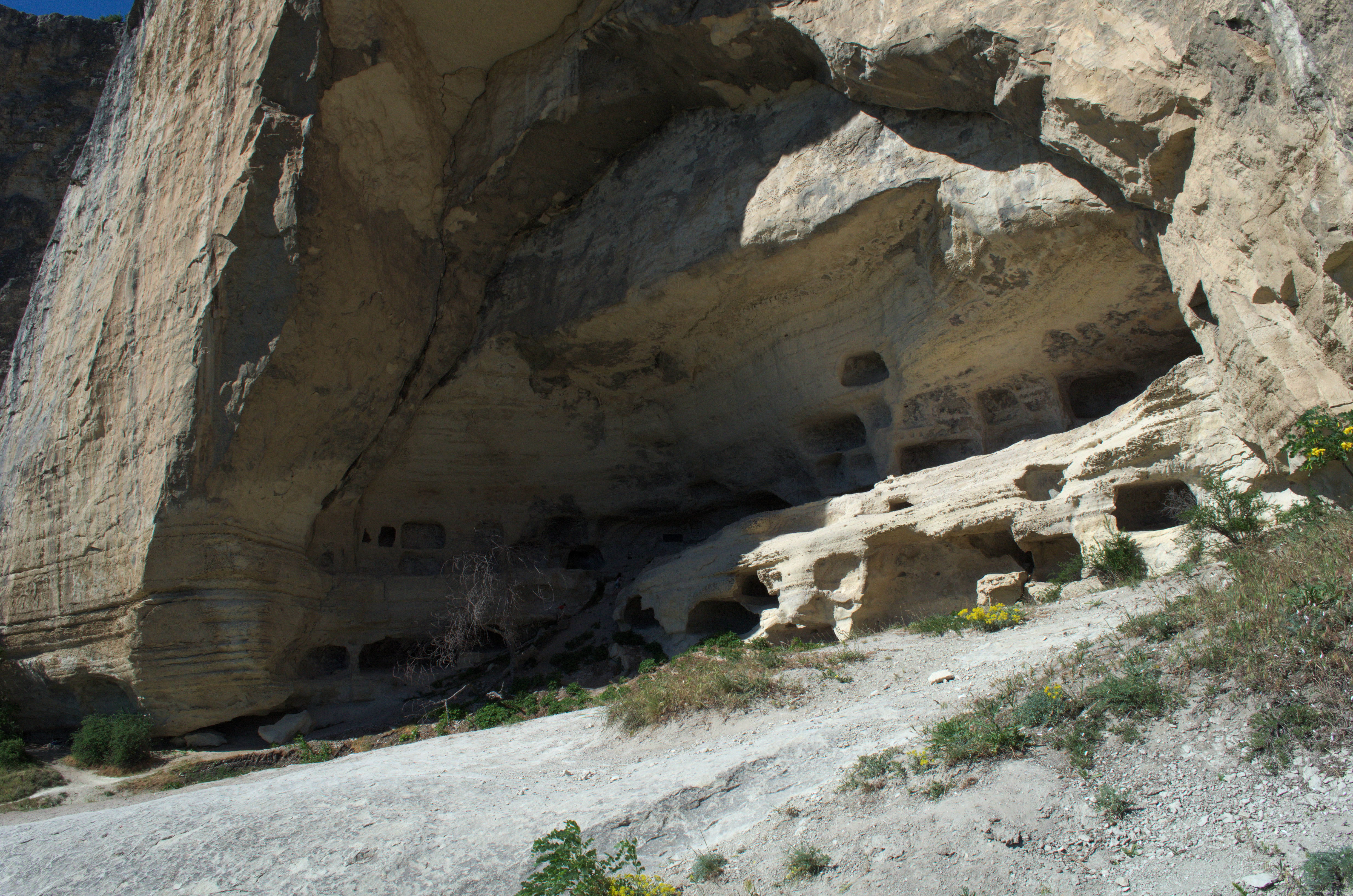 Cave Monastery Kachi-Kalon